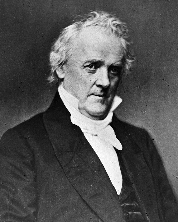 James Buchanan (cropped from the original image)